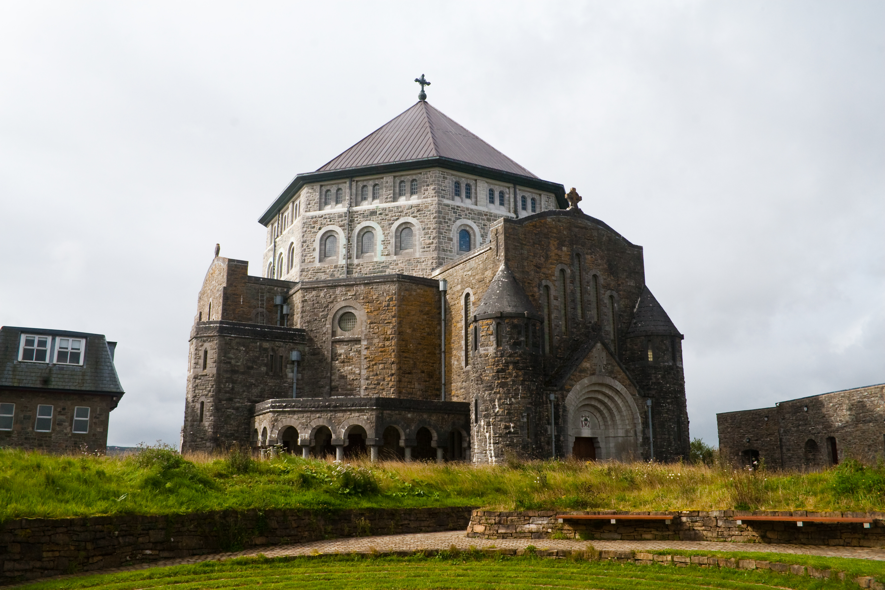 Station Island, Lough Derg, County Donegal, Ireland South-west view of the basilica on Station Island, designed by William Scott (1871–1921). The green at the bottom of the photograph belongs to the labyrinth. This photograph has been taken with kind permission of the prior, Monsignor Richard Mohan.